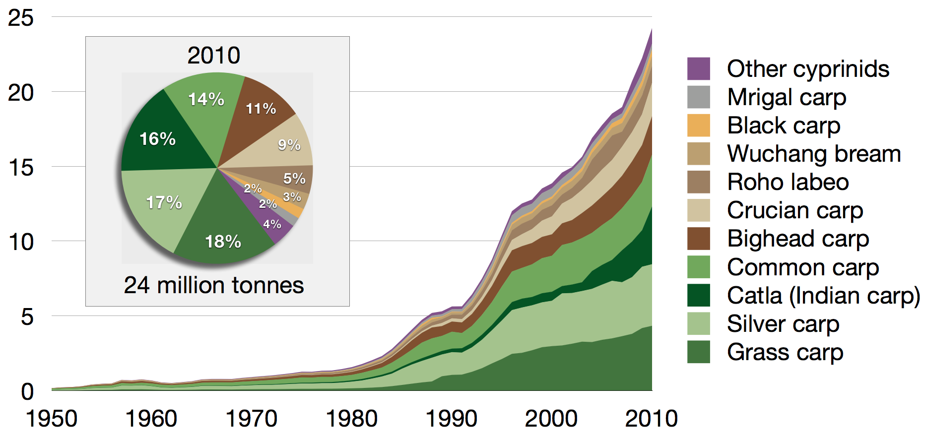 Aquaculture production of cyprinid species in million tonnes, 1950–2010, as reported by the FAO. Based on data sourced from the FishStat database